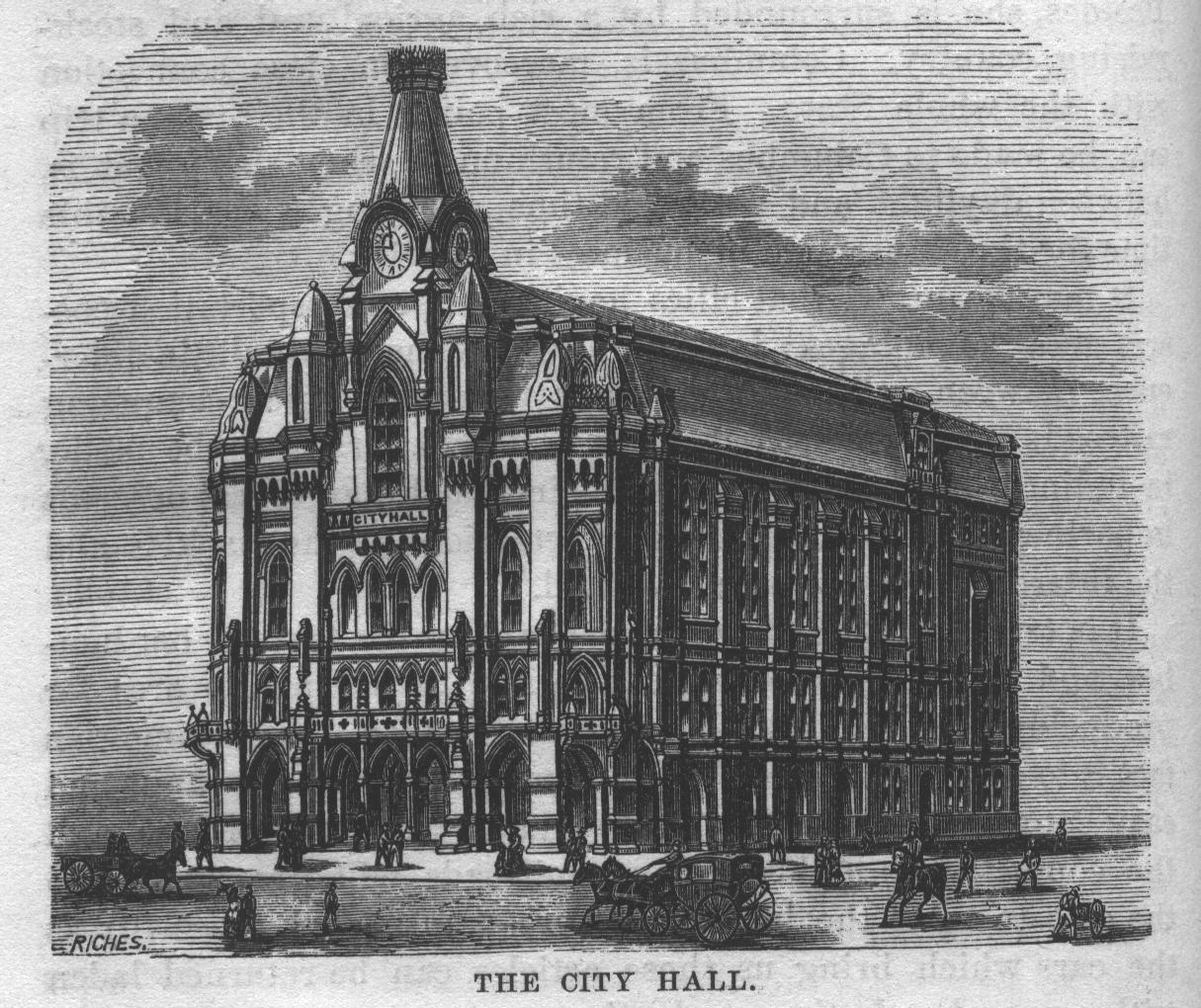 Old Columbus City Hall, completed in 1872. Burned in 1921, the site presently home to the Ohio Theatre. Category:Images of Ohio